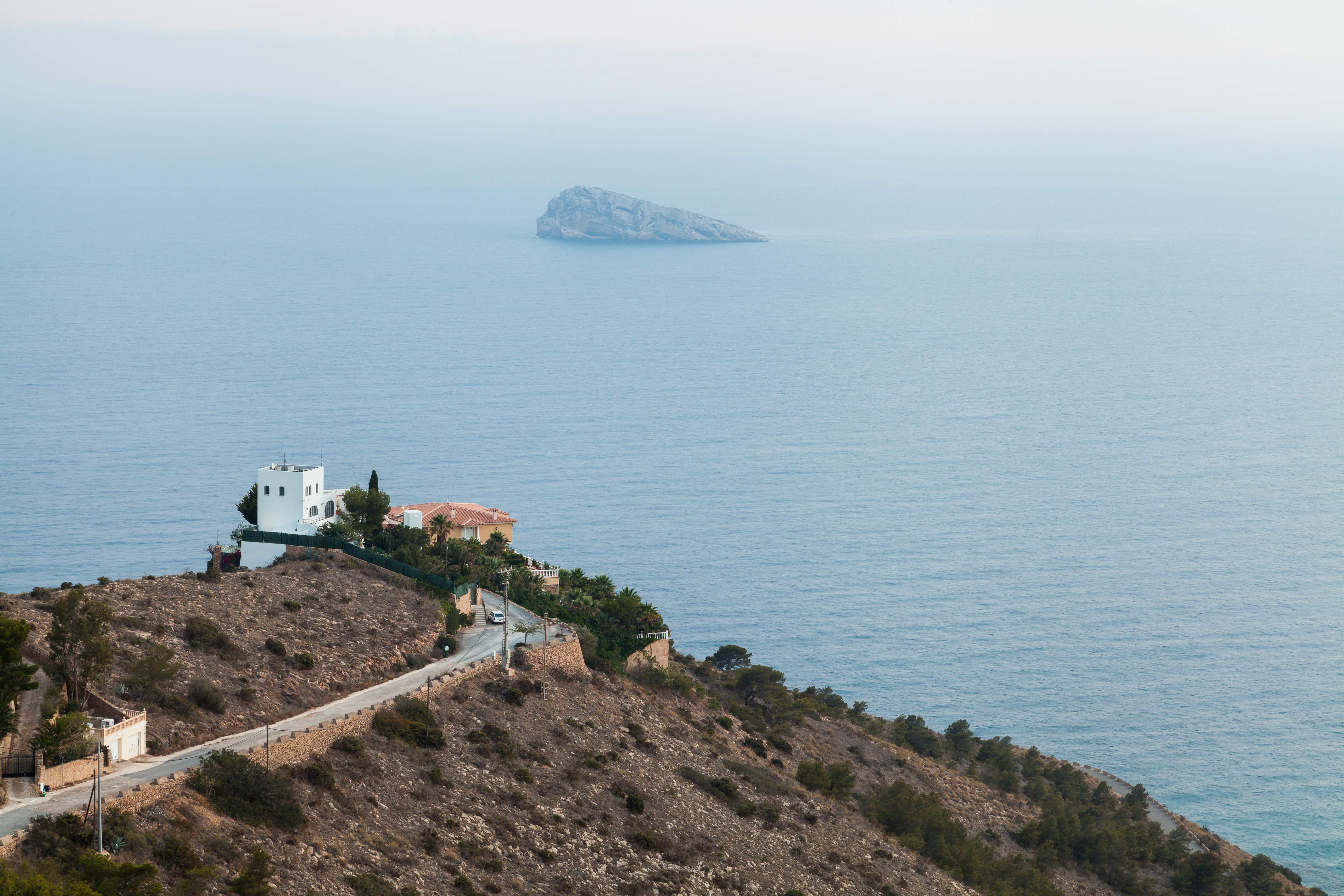 Benidorm Island — in the Costa Blanca region of the Land of Valencia, eastern Spain.